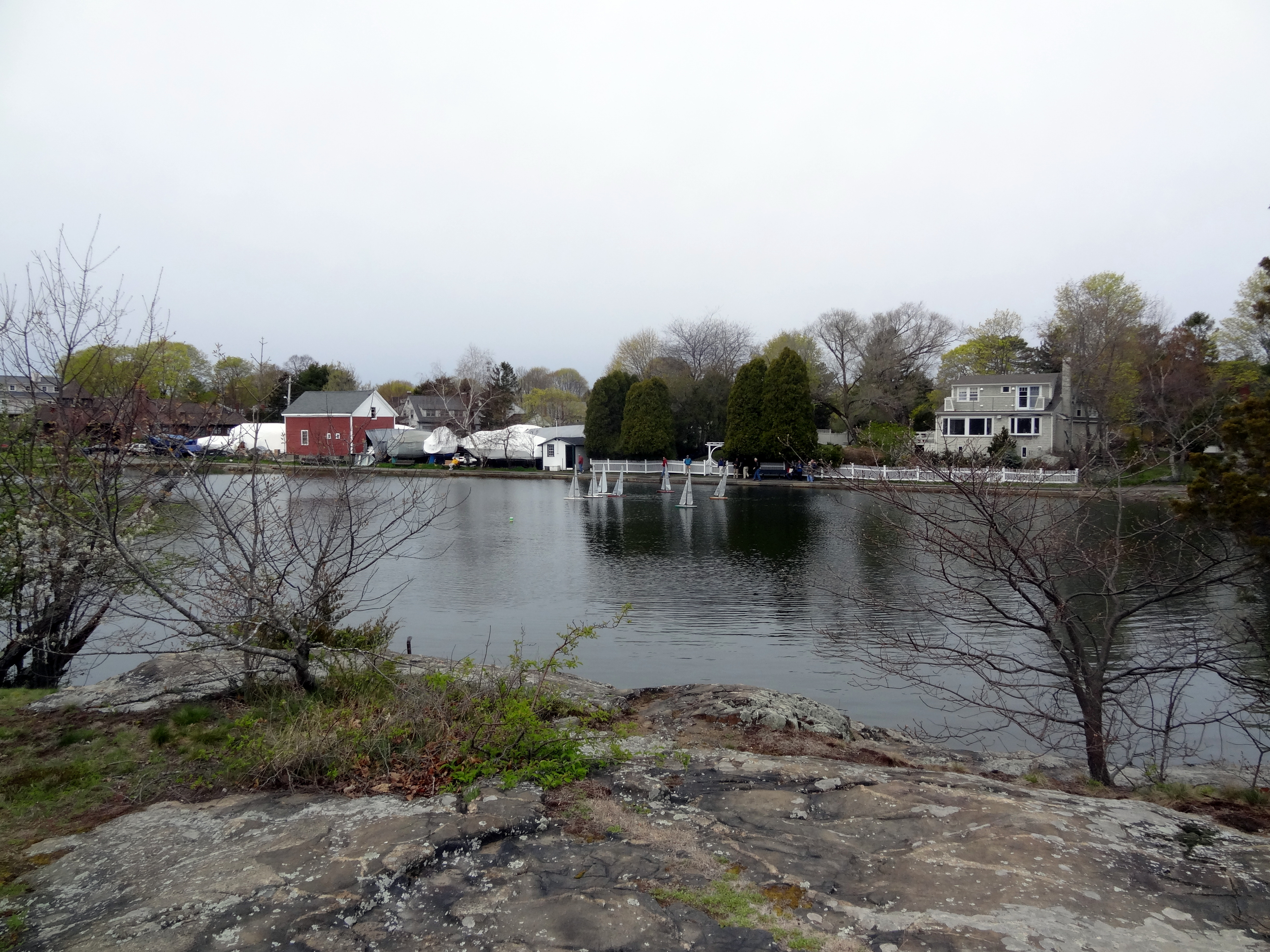 Marblehead Model Yacht Club Redd's Pond Marblehead, Massachusetts View from Old Burial Hill